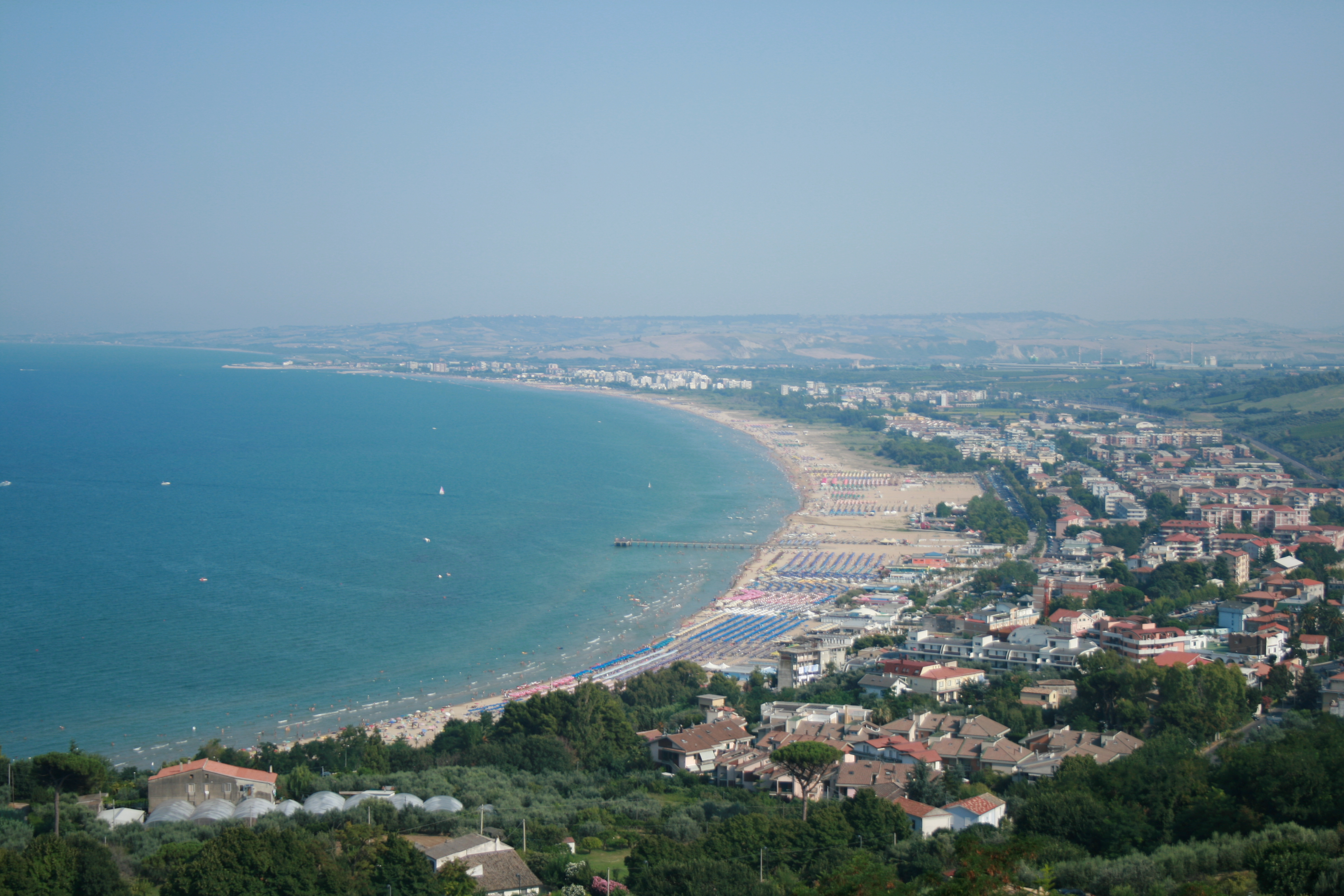 Vasto (Ch)